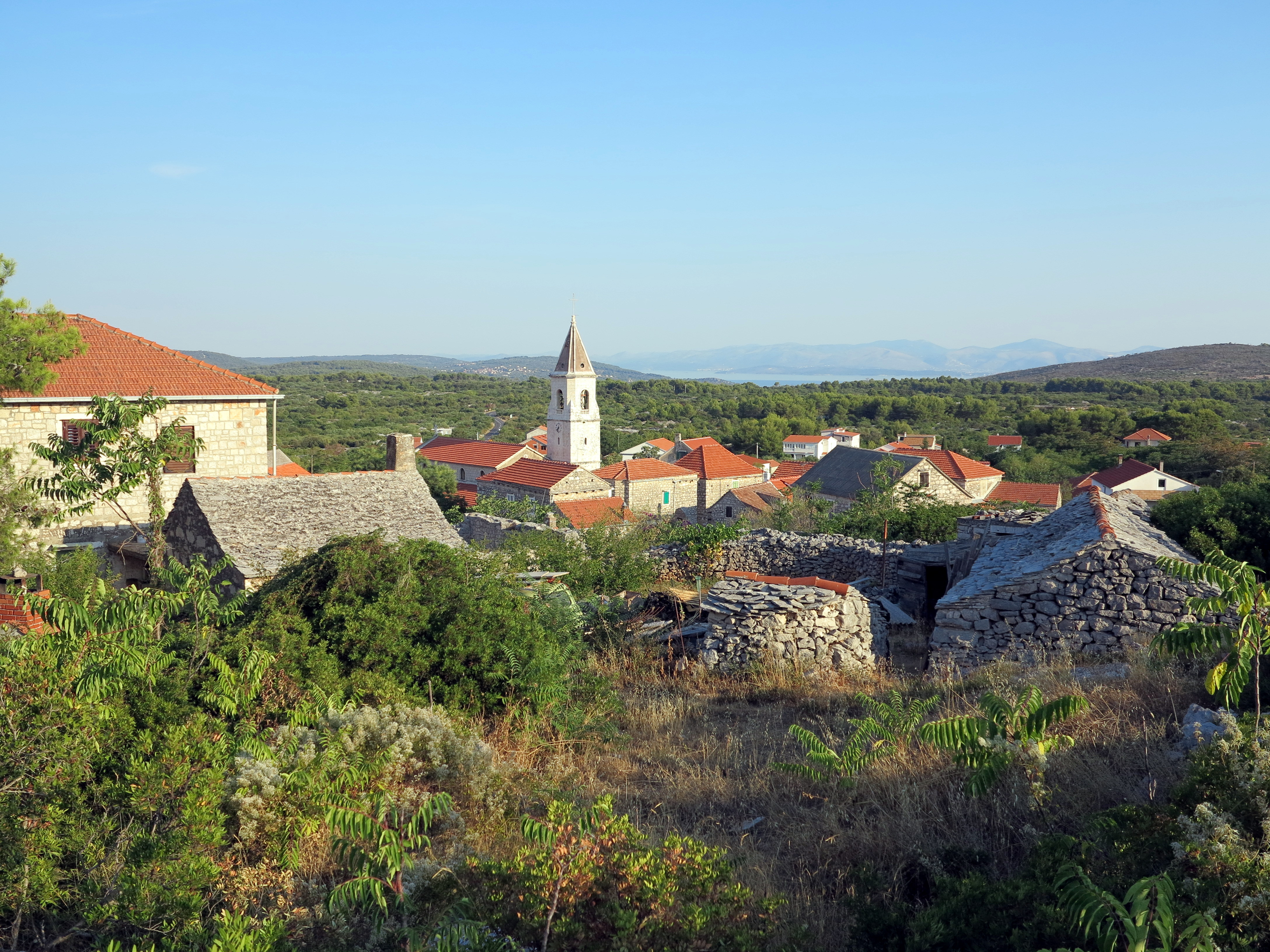 Gornje Selo on the island Šolta / Croatia / Adriatic Sea. View to the west.